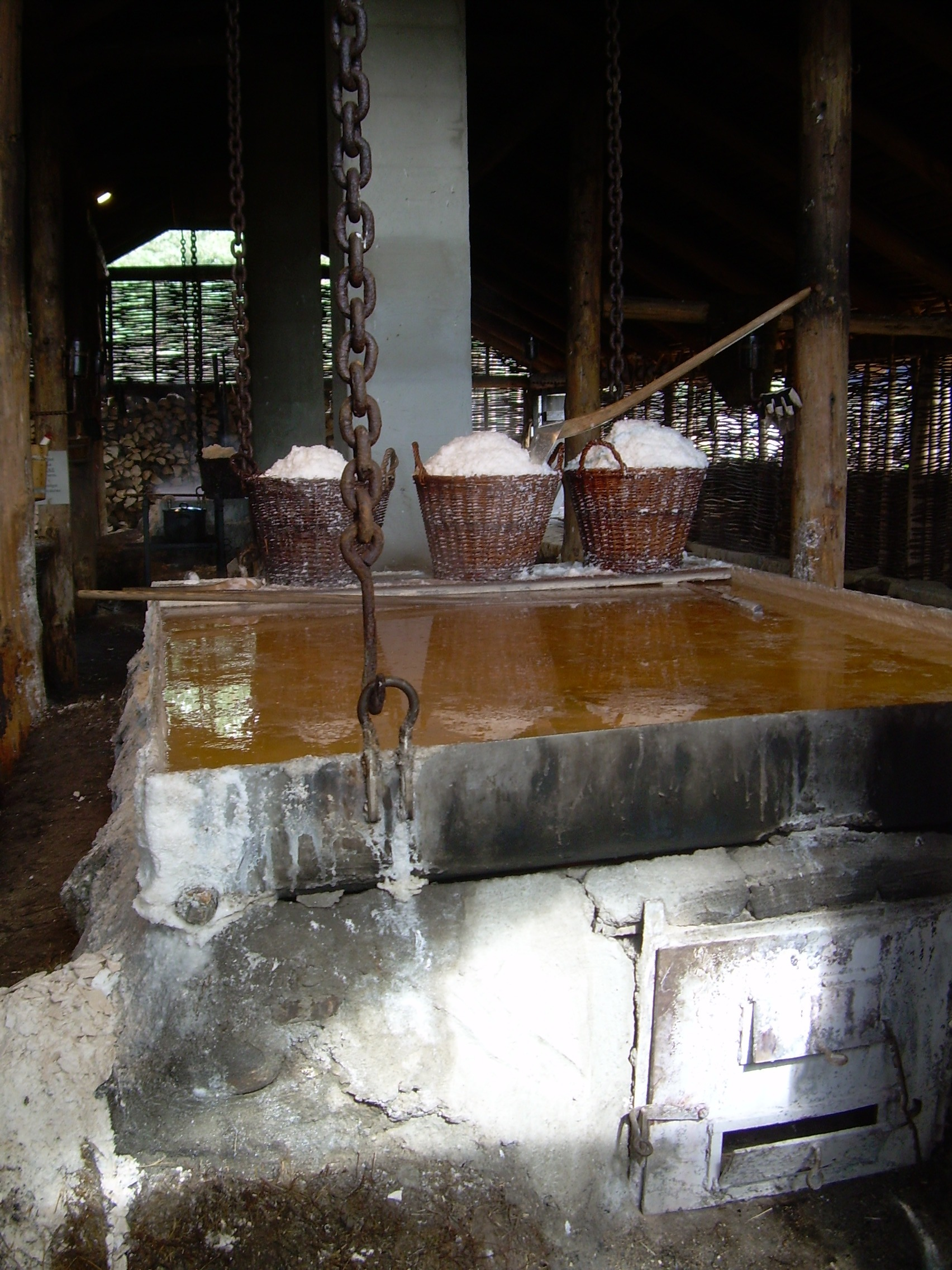 Salt evaporation pond, Læsø, Denmark